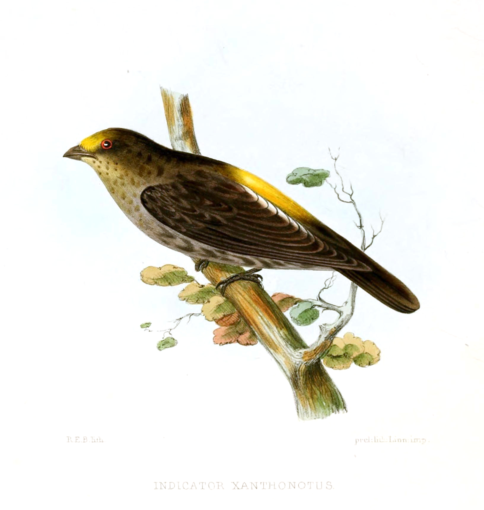 Indicator xanthonotus